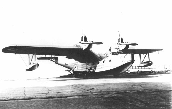 Original image on